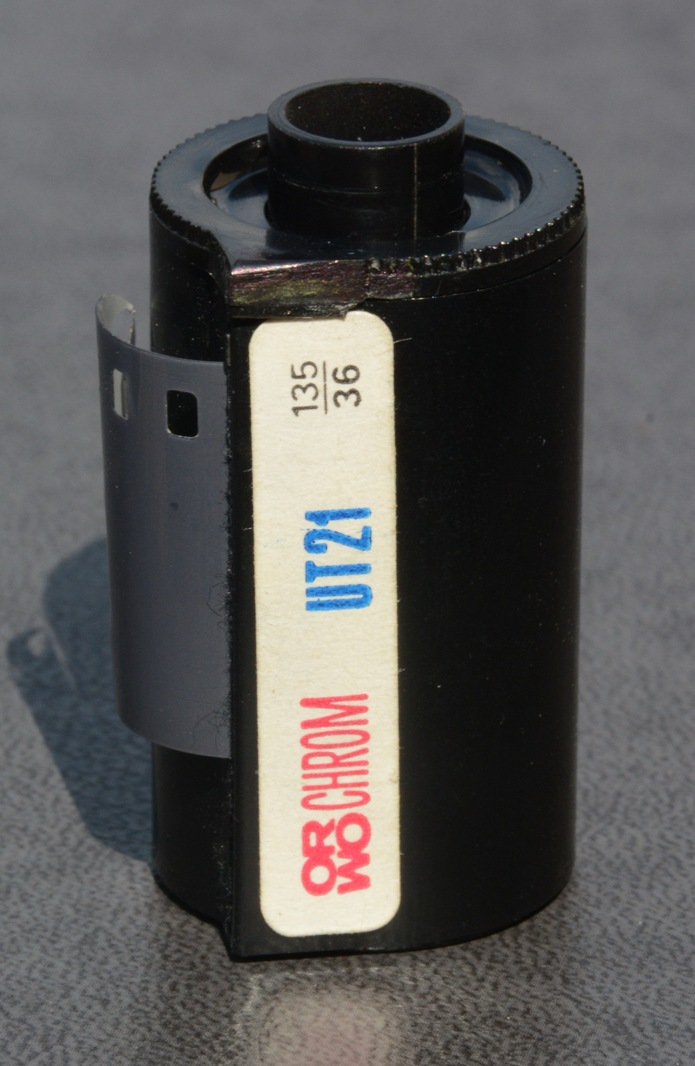 ORWO Orwochrom UT21 - 135 film for colour slides